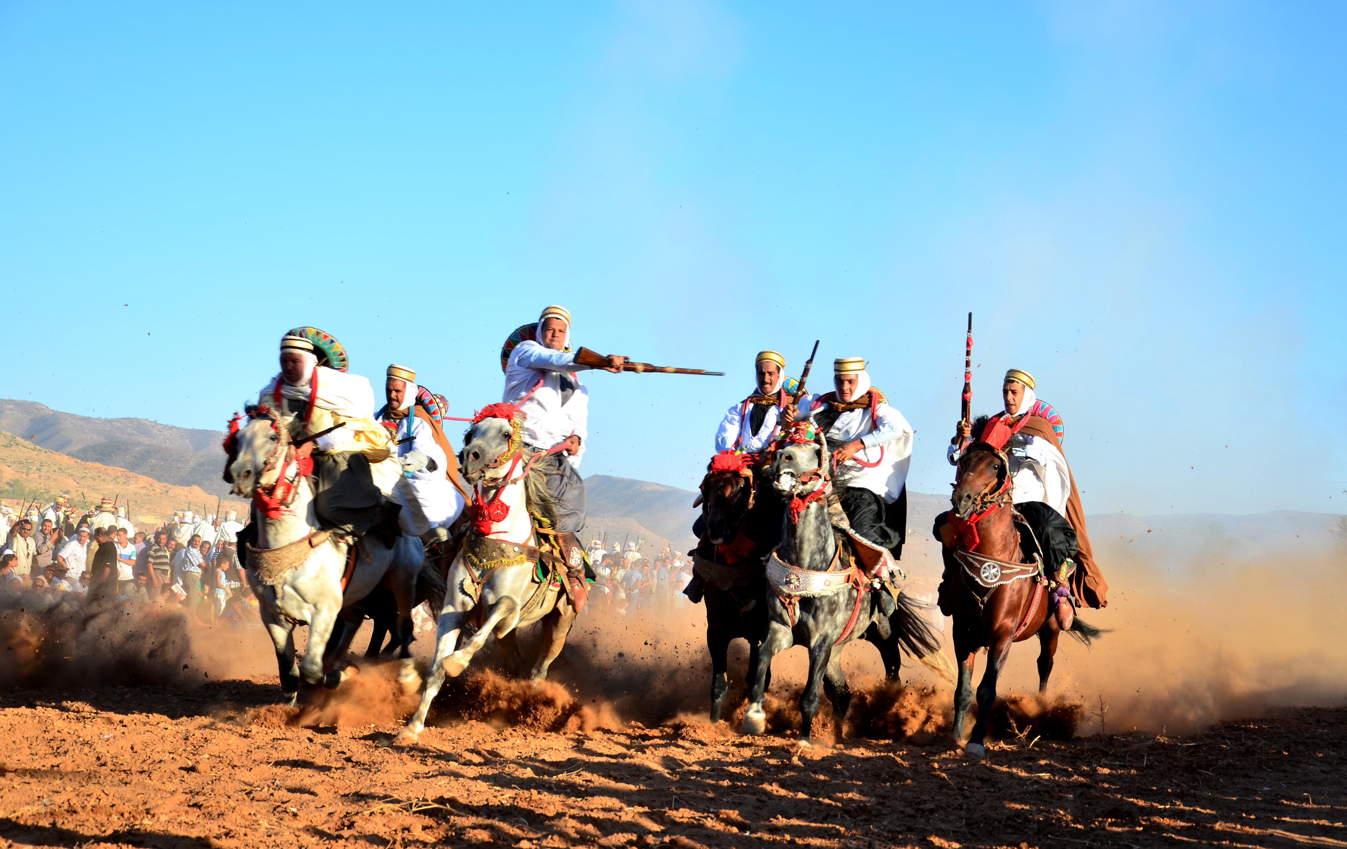 This is an image with the theme "Play" from: Algeria